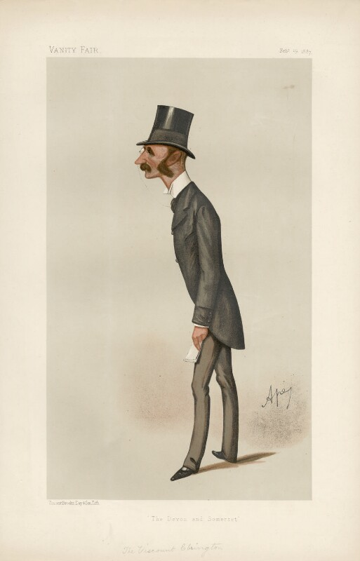 Caricature of Hugh Fortescue, Viscount Ebrington (1854-1932) (later 4th Earl Fortescue). Caption: "The Devon and Somerset", referring to his mastership of the Devon & Somerset Staghounds.